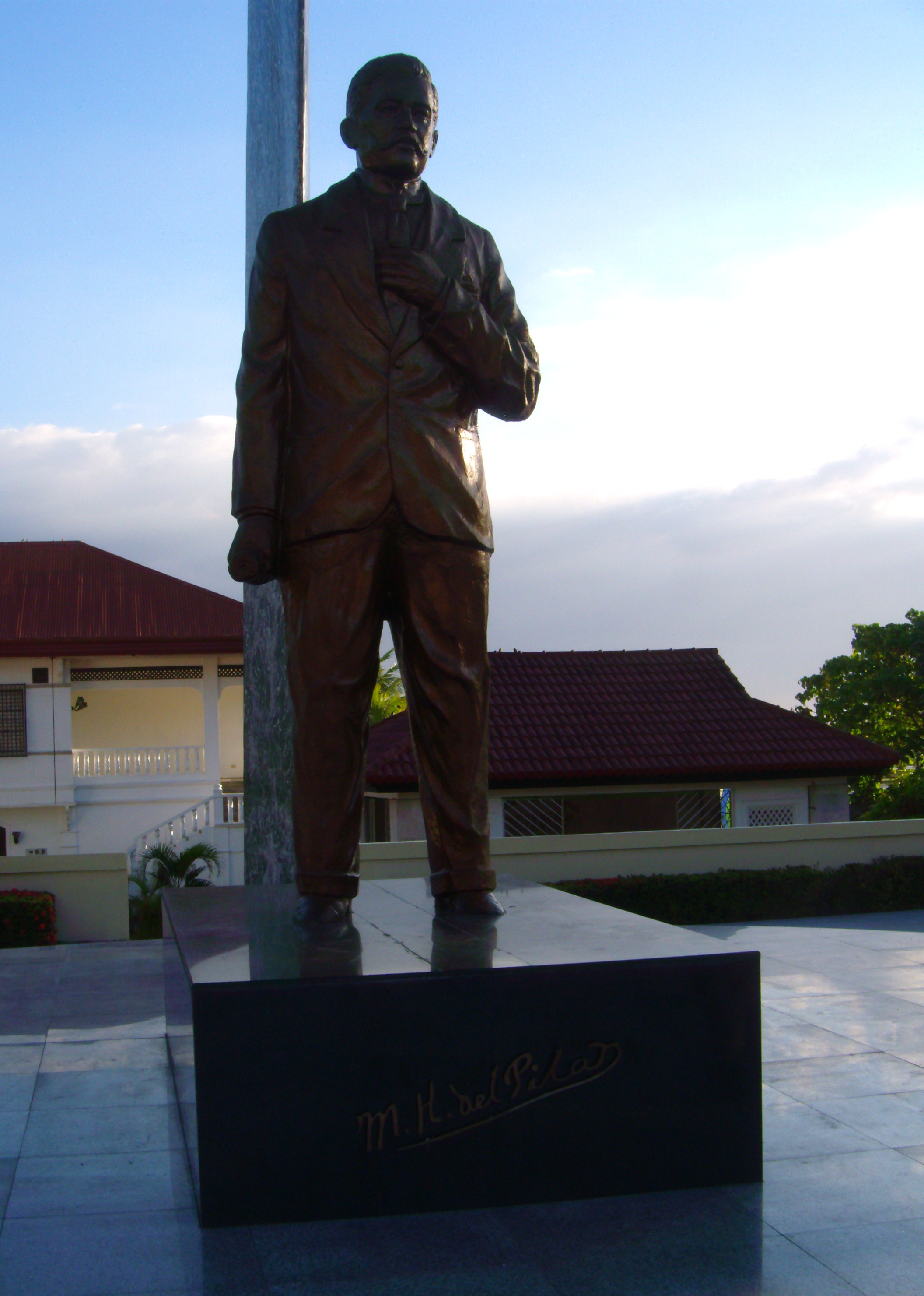 The statue of Marcelo H. Del Pilar in his national shrine in San Nicolas, Bulacan, Bulacan